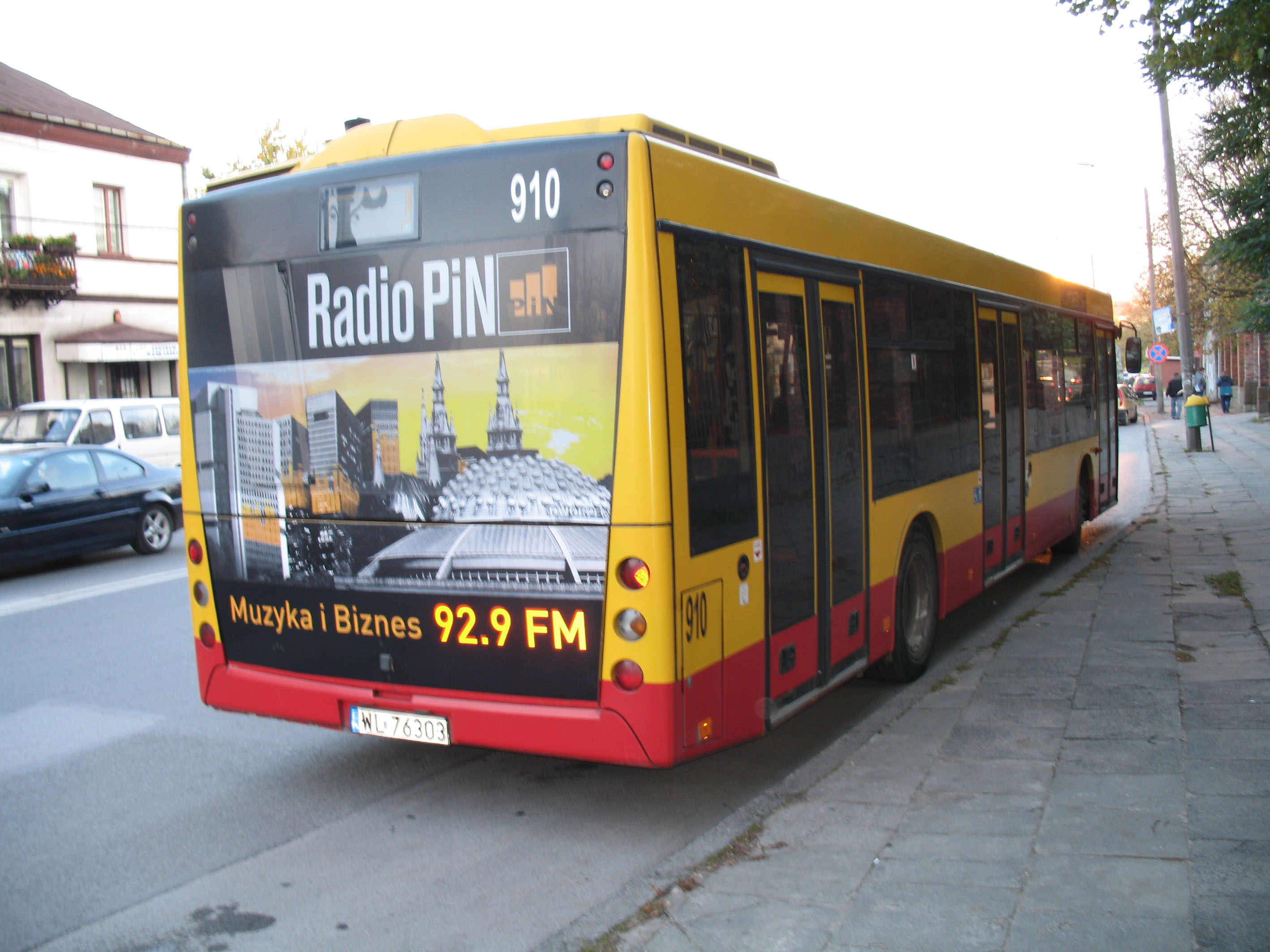 MAZ 203.076 bus (#910) in Kielce, Poland. Built 2008, MPK Kielce operator.